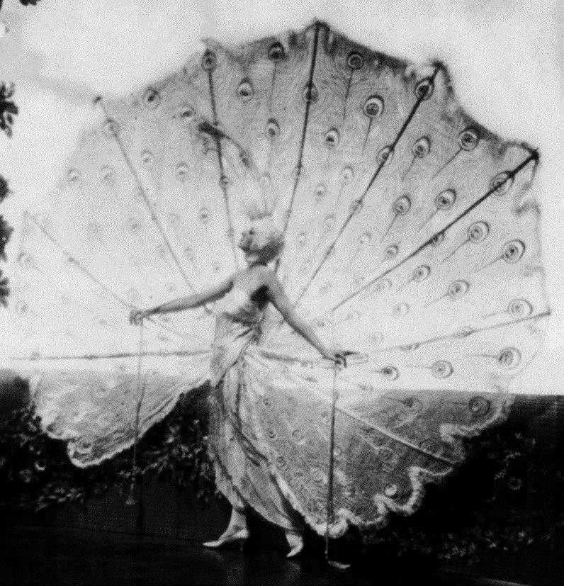 Dolores peacock costume (cropped).